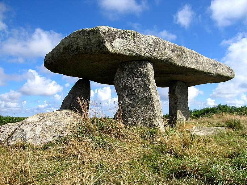 Lanyon Quoit - Megalith - Cornwall - UK